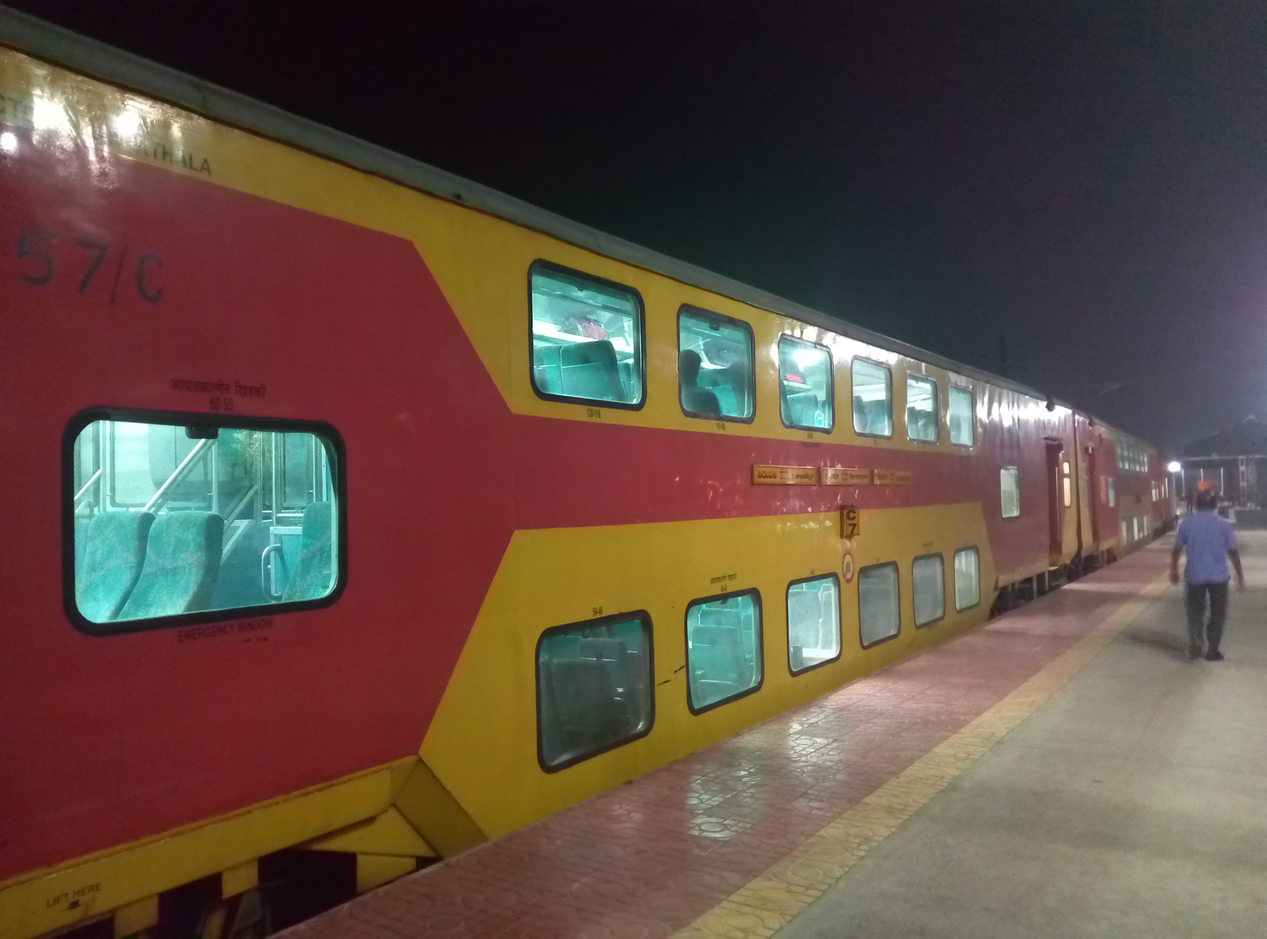 Double decker train running between Visakhapatnam and Tirupati, photo taken at New Guntur station